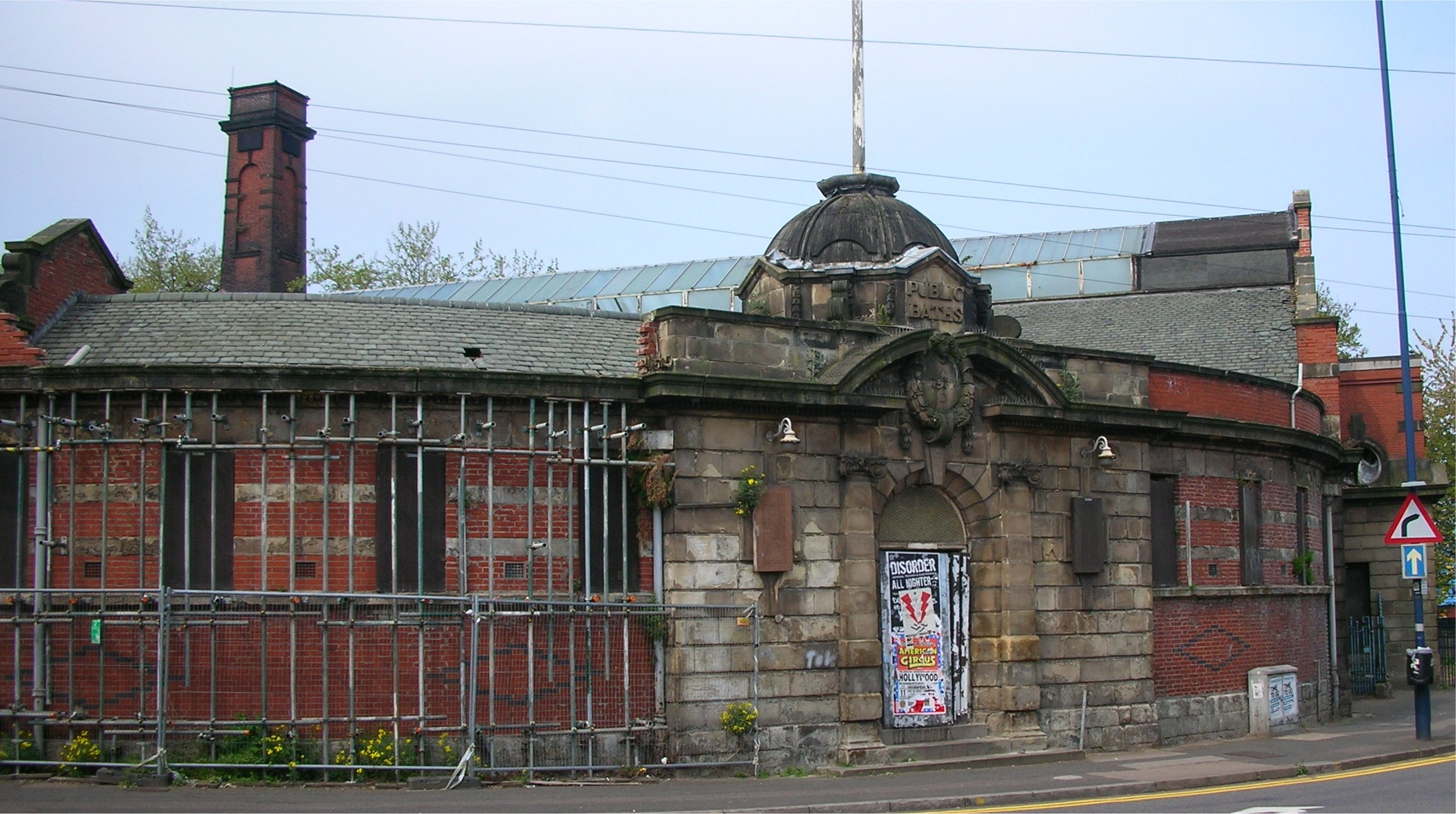 The public baths, dated 1910, at Bournville Lane, Stirchley, Birmingham, England. They are grade II listed. Photographed by me 27 April 2007. Oosoom